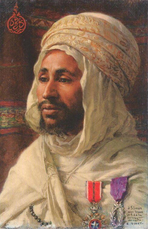 Portrait of Sliman ben Ibrahim with Nichan El Anouar and Palmes académiques decorations